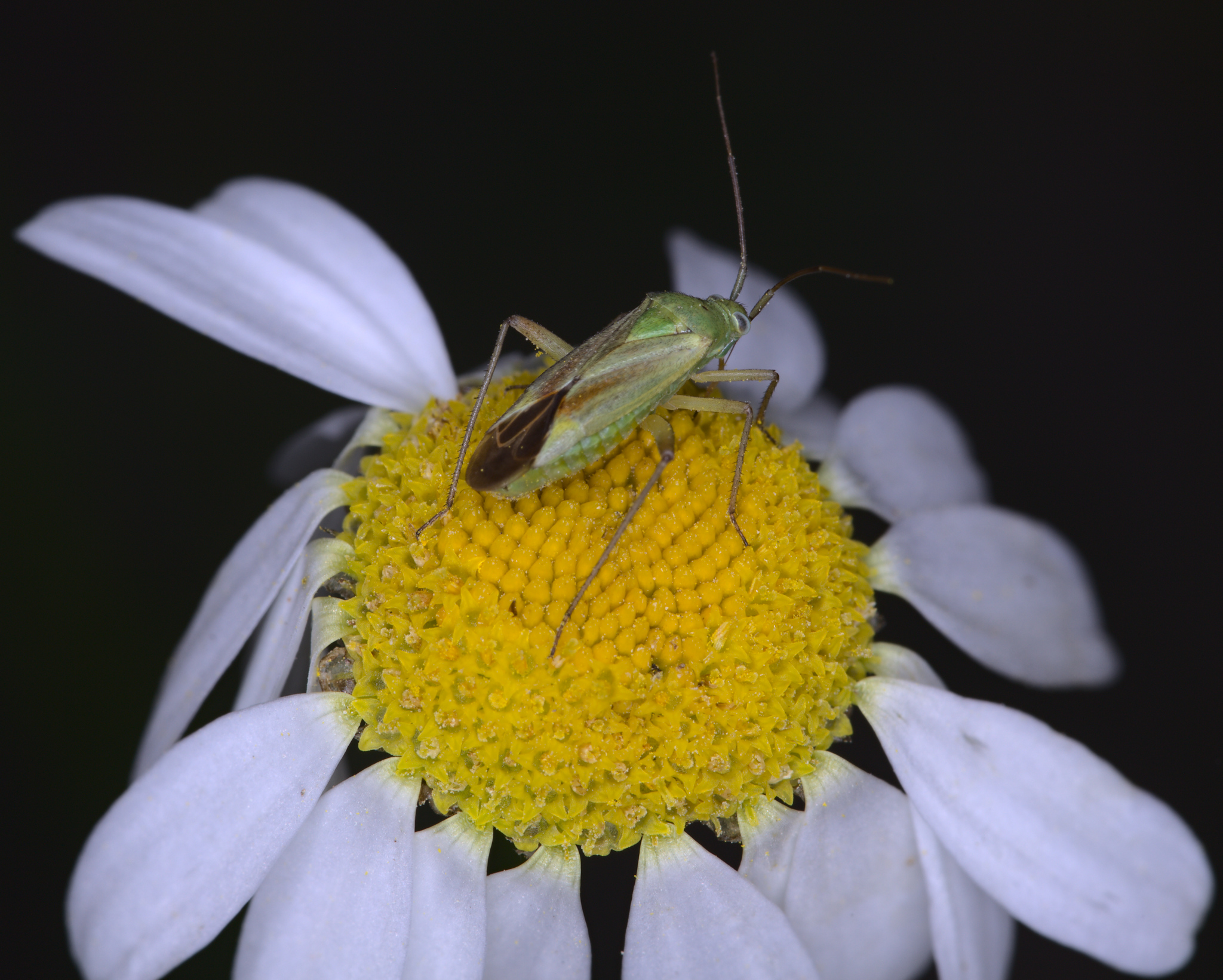 Anthemis arvensis with Neolygus viridis